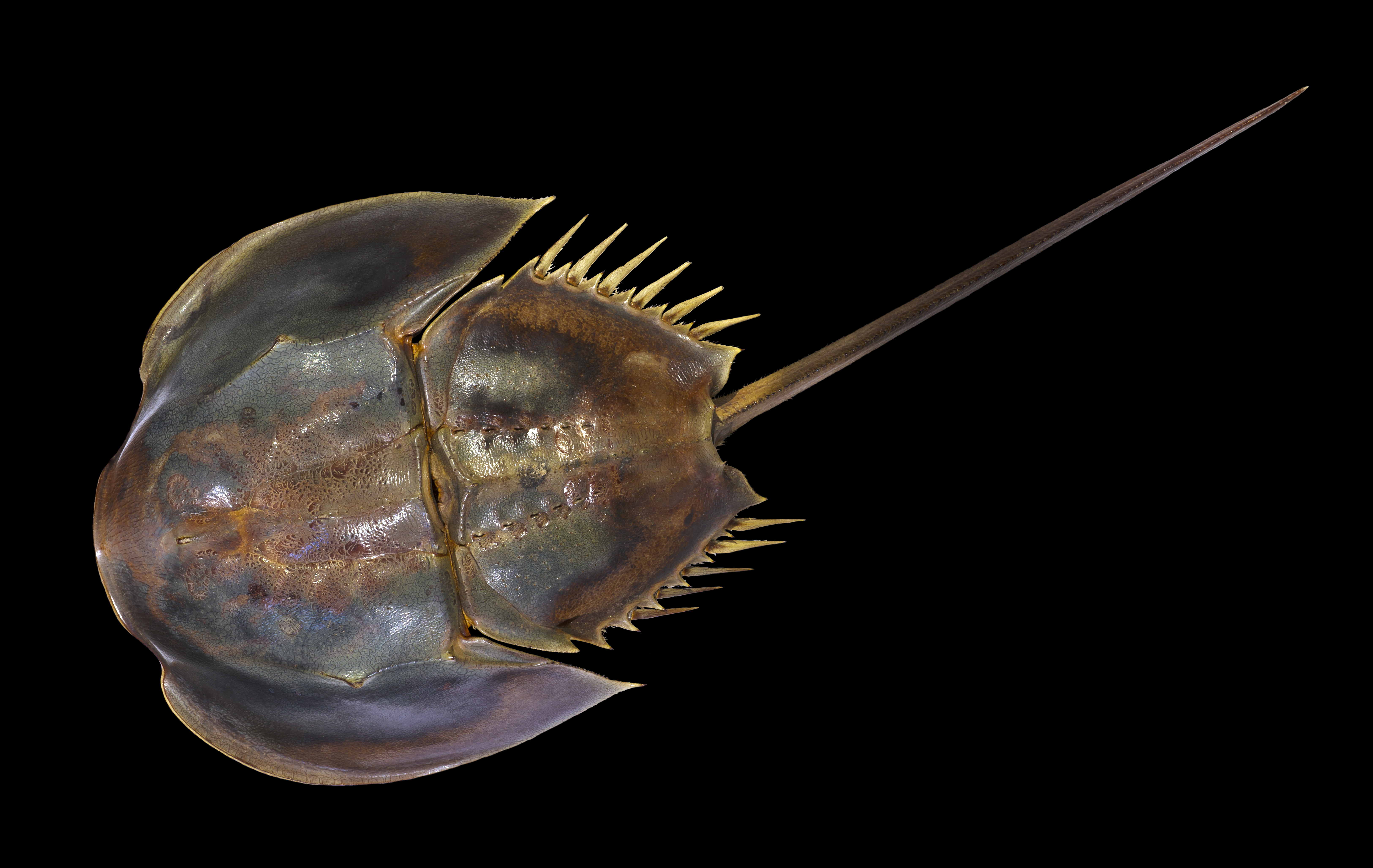 Horseshoe crab - Limulus polyphemus - 55 cm (Dorsal view) - East Coast of the United States